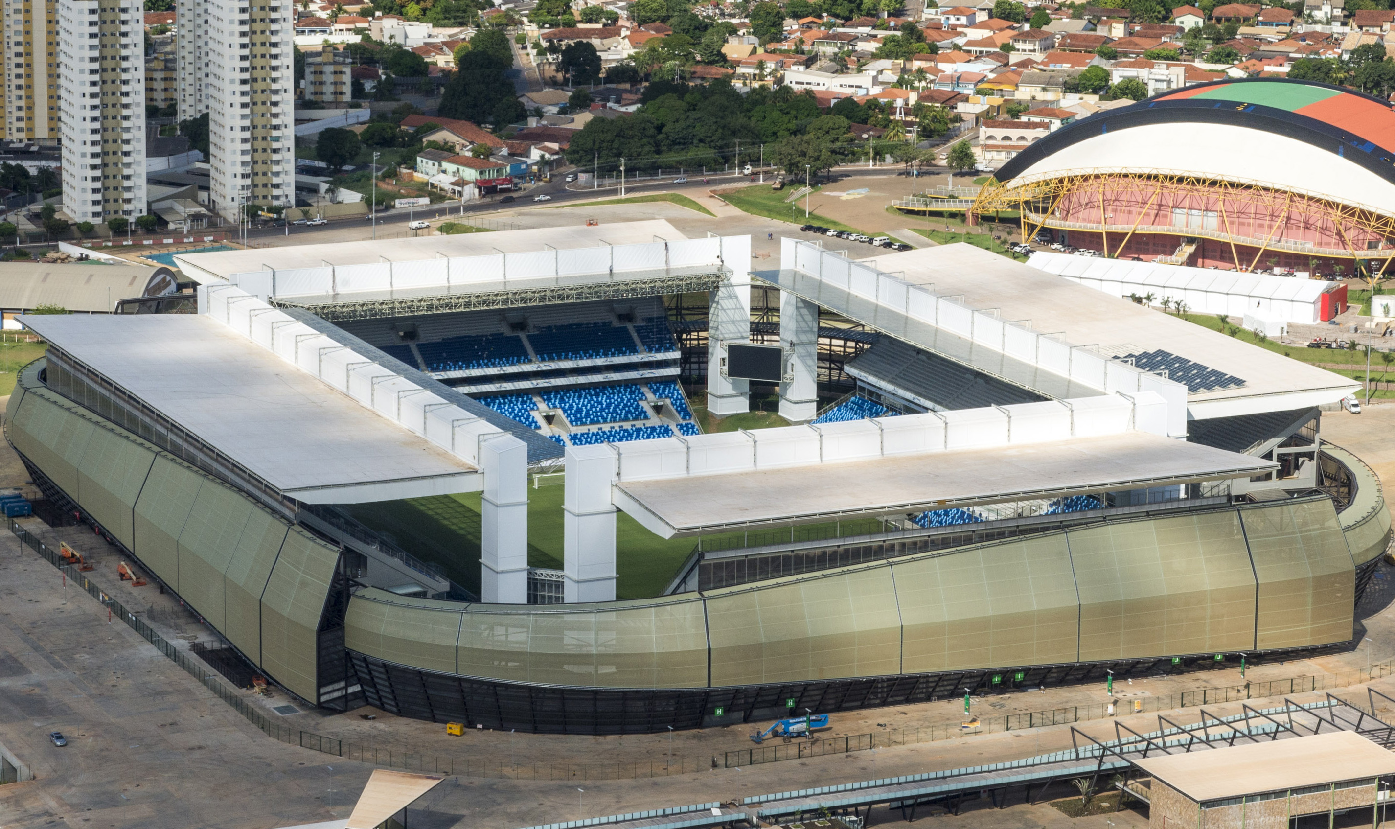 Cuiaba Arena in April 2014